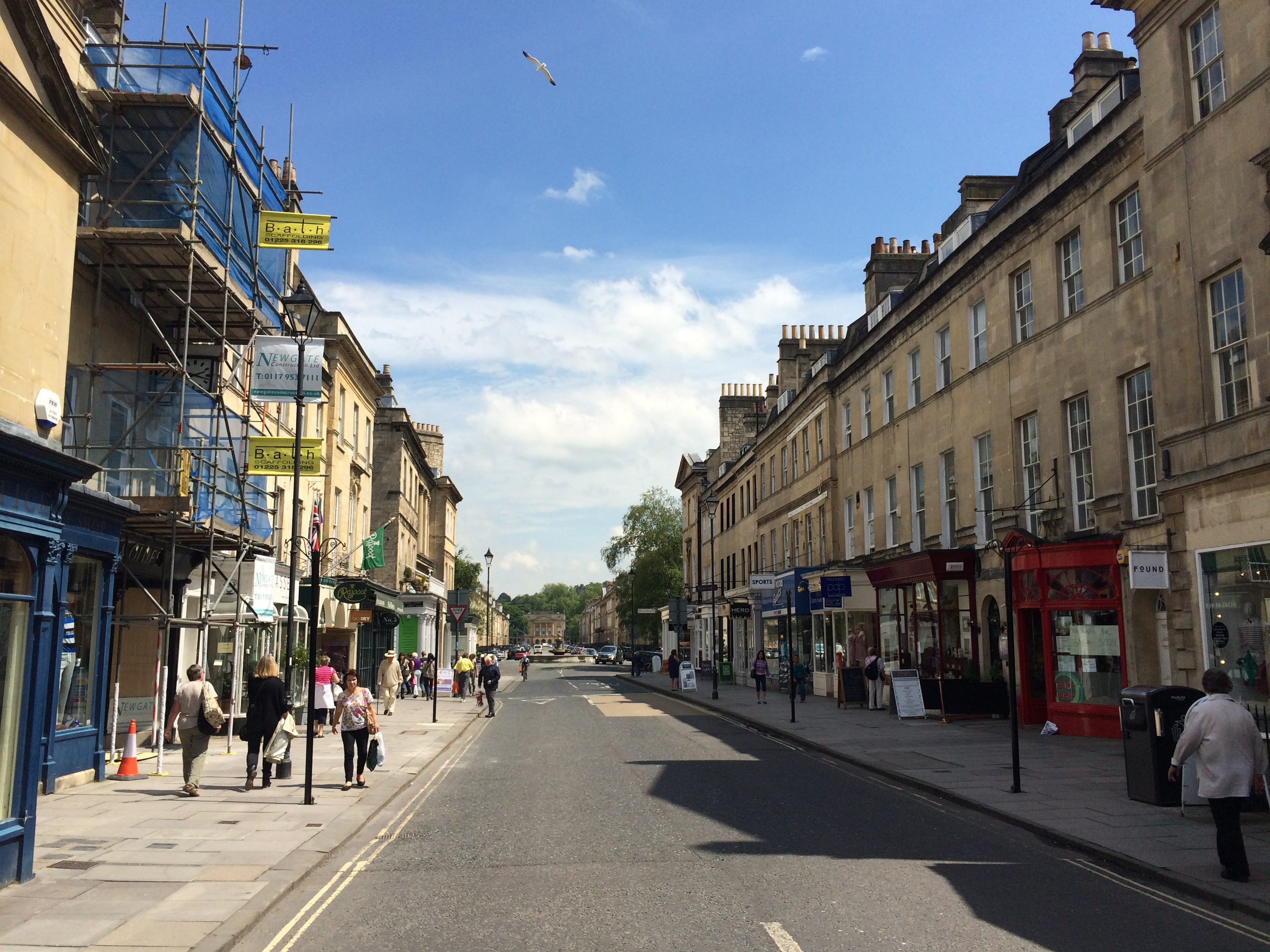 Argyle Street, Bath looking towards the east